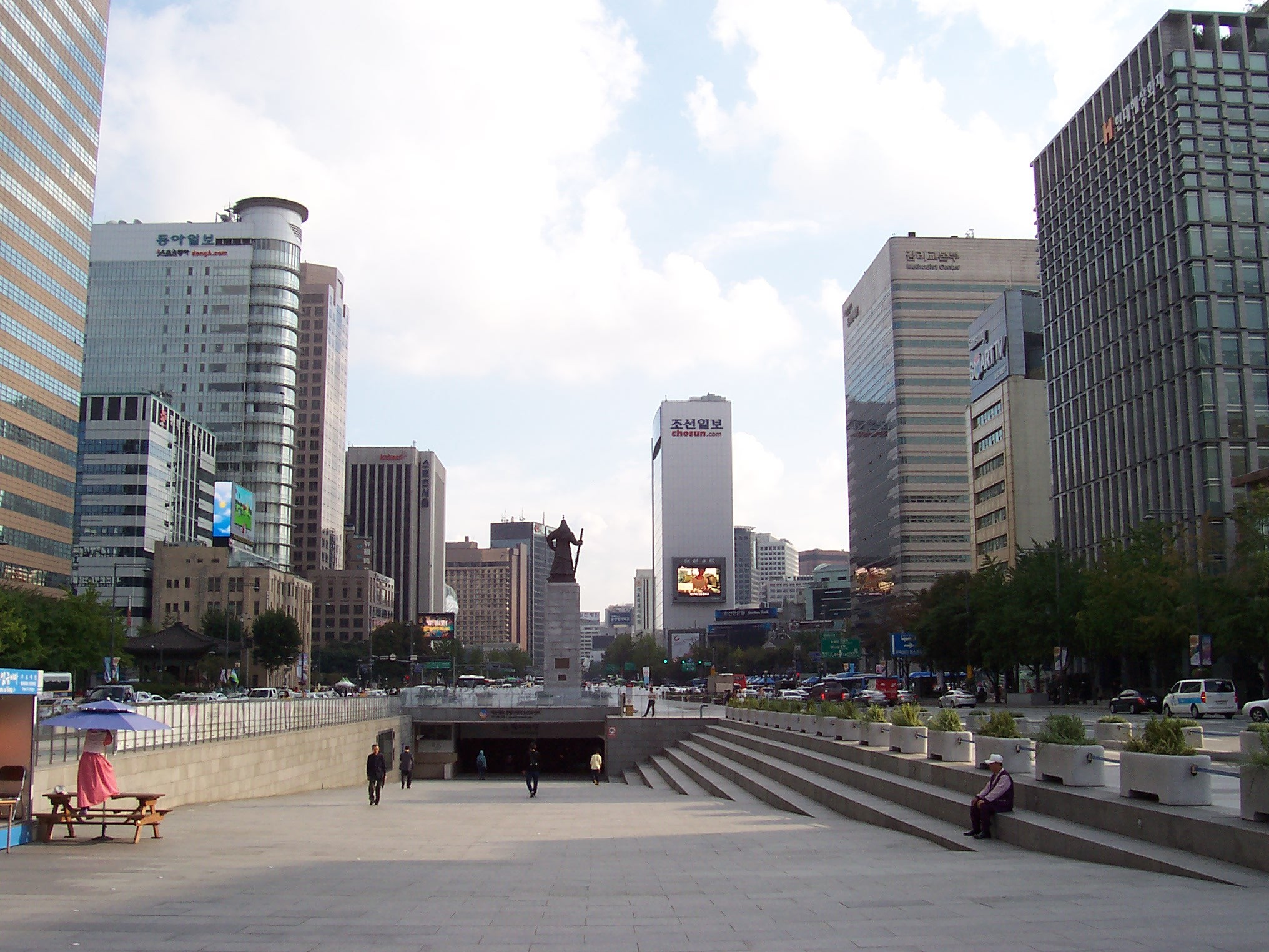 Gwanghwamun Square,Seoul